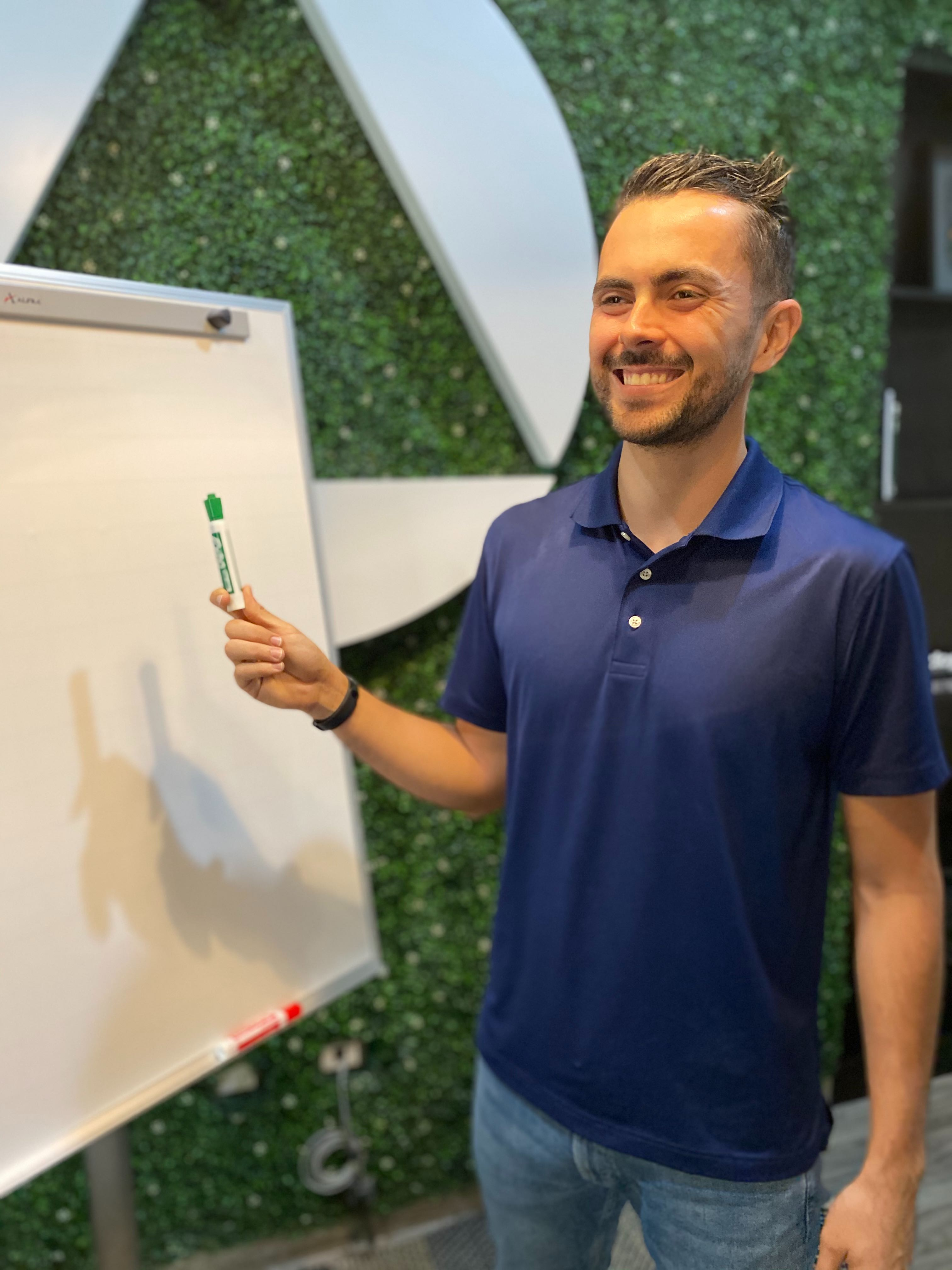 Cris Urzua, Mérida, Yucatán.